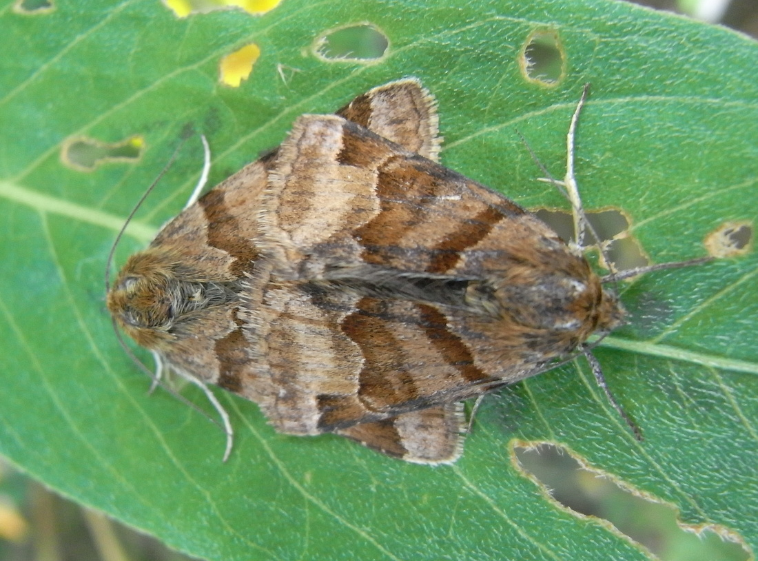 Burnet Companion Moths (Euclidia glyphica) near Hamburg, Germany, mating.